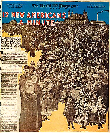 A cover from the "World on Sunday" the magazine section of the New York World; a 1906 poster re immigration, illustrated by an artist now unknown. Other information See Nicholson Baker and Margaret Brentano, eds. The World on Sunday: Graphic Art in Joseph Pulitzer's Newspaper (1898 - 1911) (2005) p 85 for large copy.